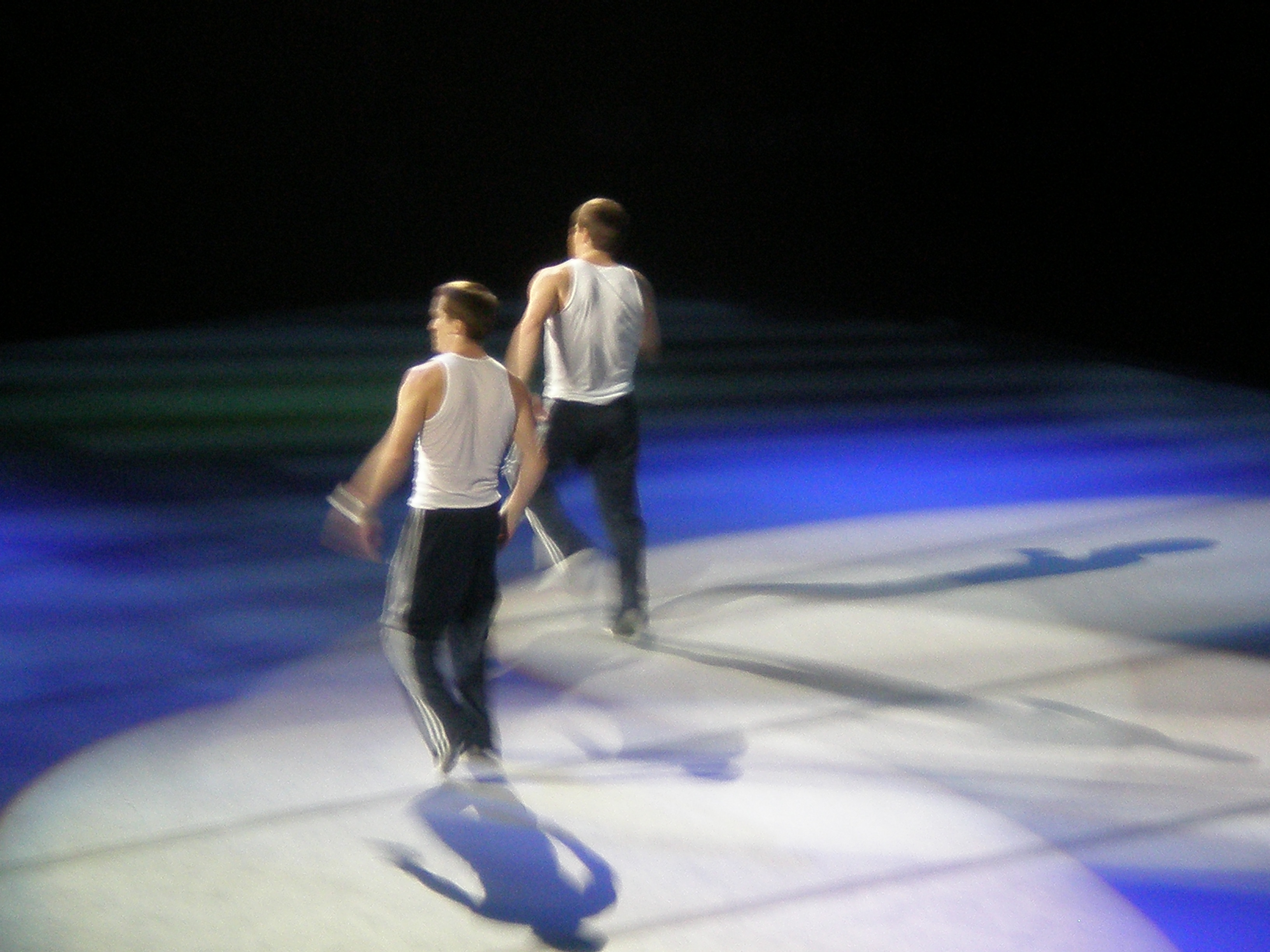 Morgan and Paul Hamm performing at the 2008 Tour of Gymnastics Superstars in San Jose, California.